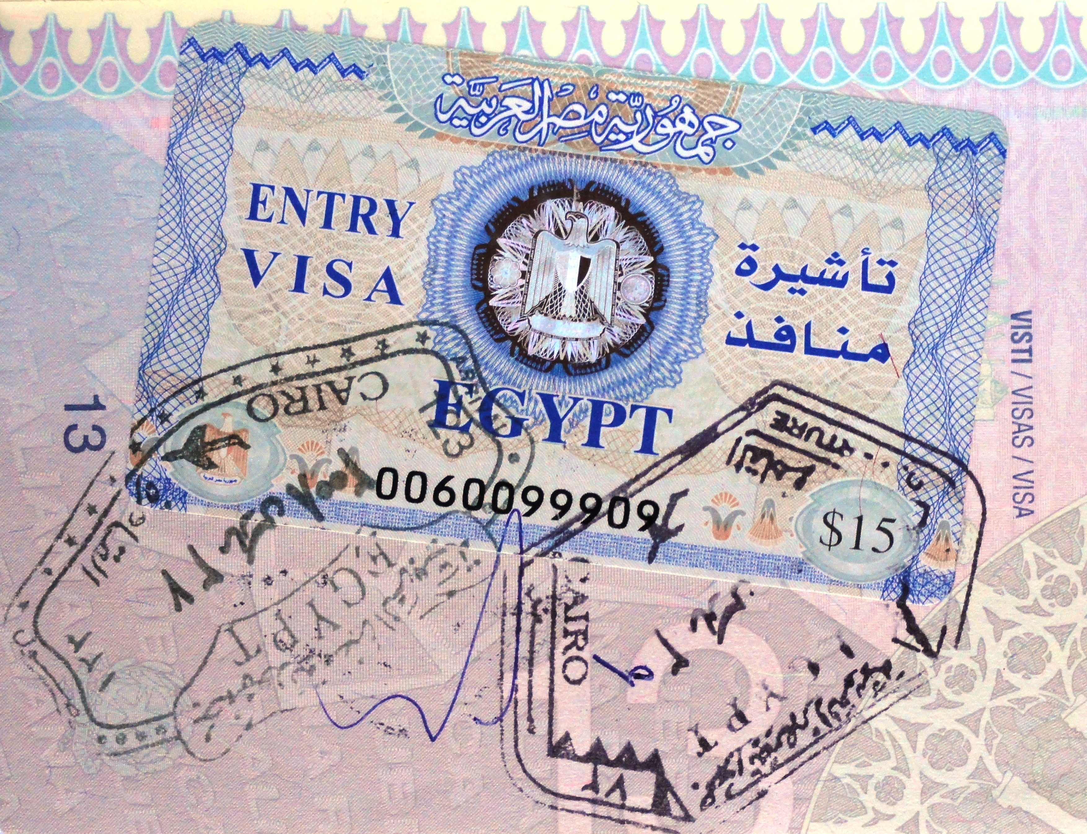 Egypt Visa